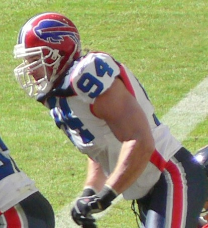 Houston Texans attempt a running play for a touchdown close to the end zone in the November 19, 2006 home game against the Buffalo Bills.